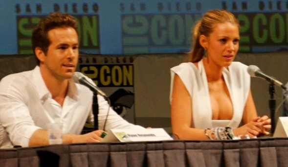 Green Lantern panel at the 2010 San Diego Comic-Con International with Ryan Reynolds, Blake Lively, Peter Sarsgaard and Mark Strong.